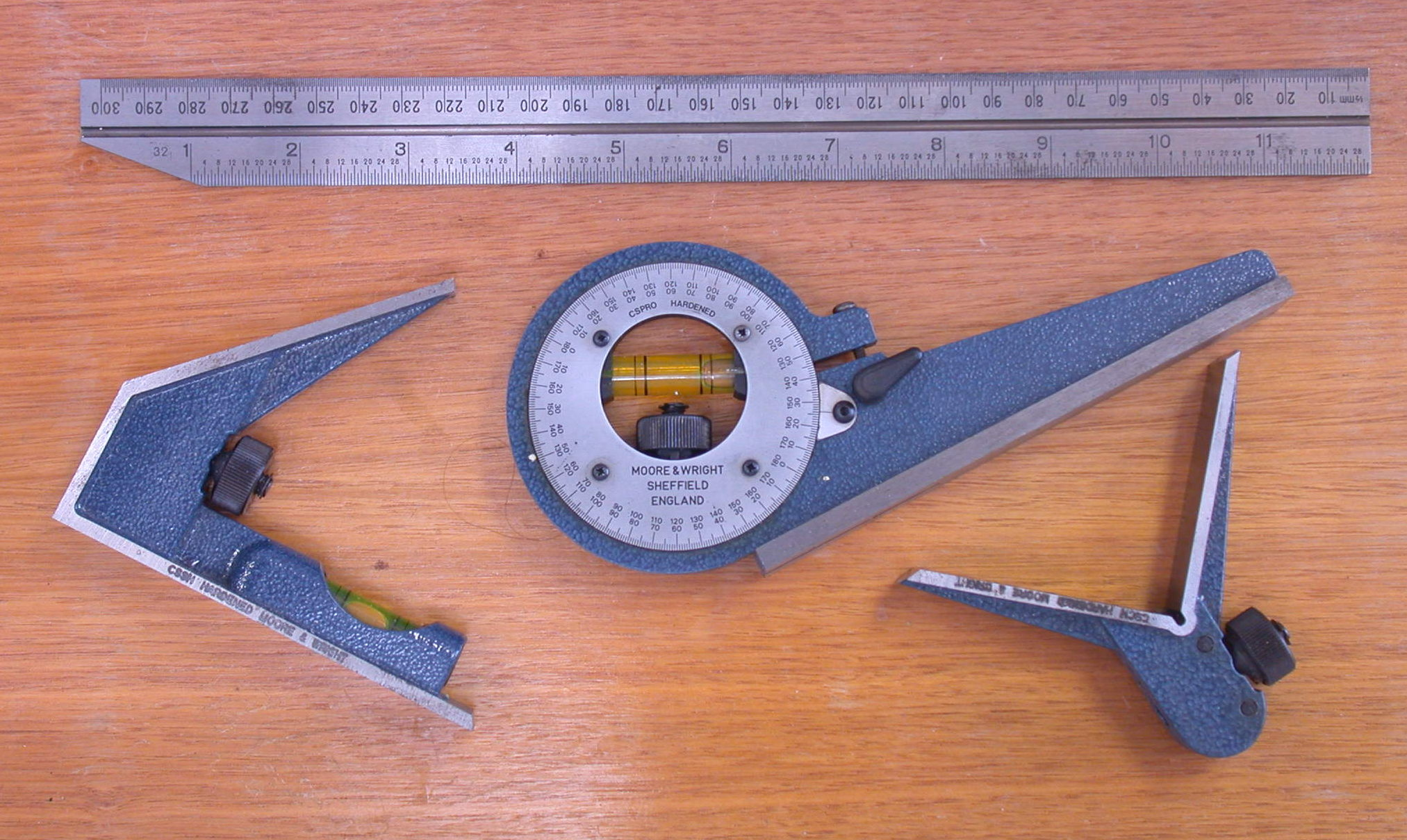 Combination square set, consisting of ruler, 45 deg square (left), protractor (middle), center square (right)